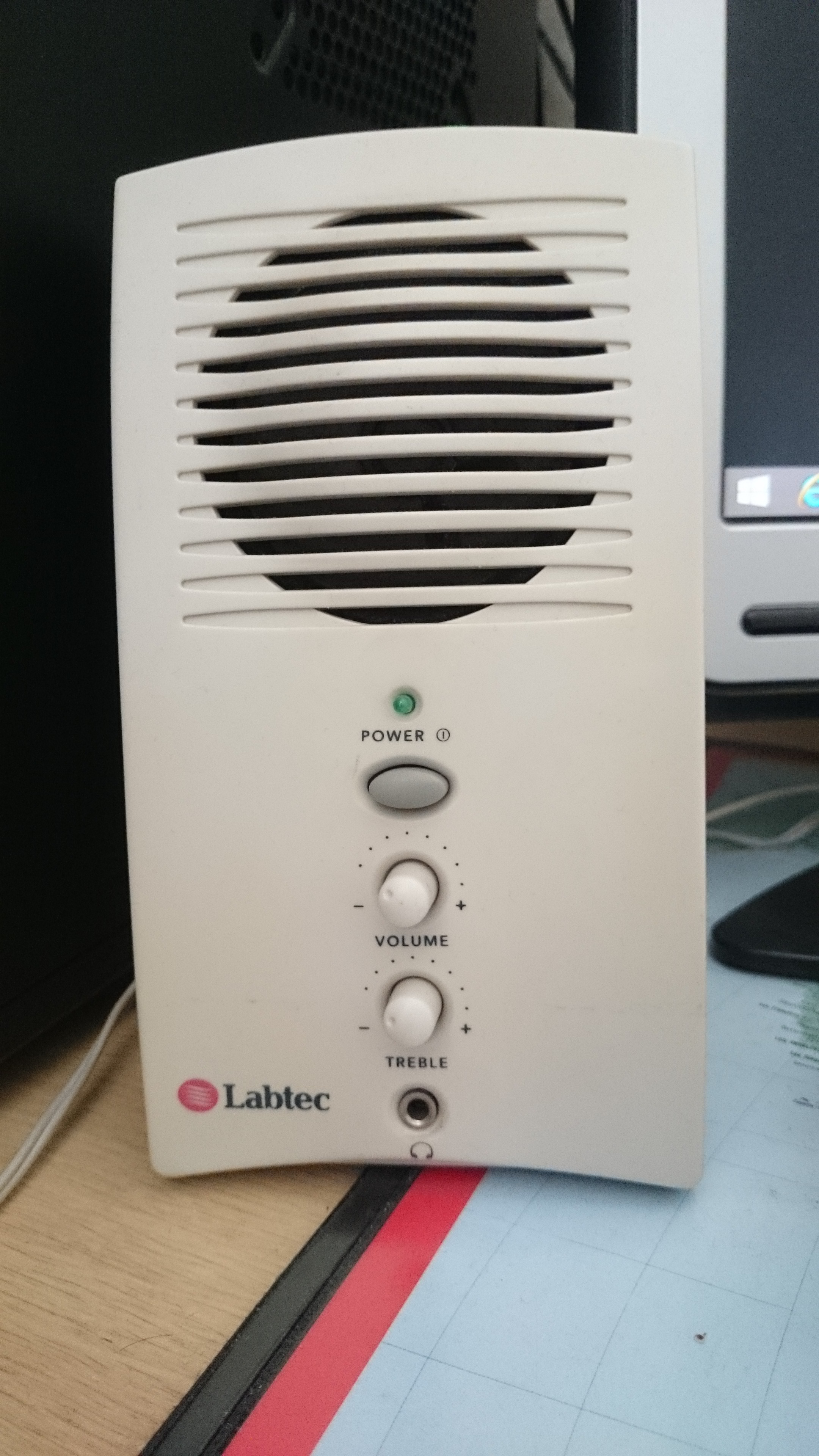 A old speaker from the brand 'Labtec'